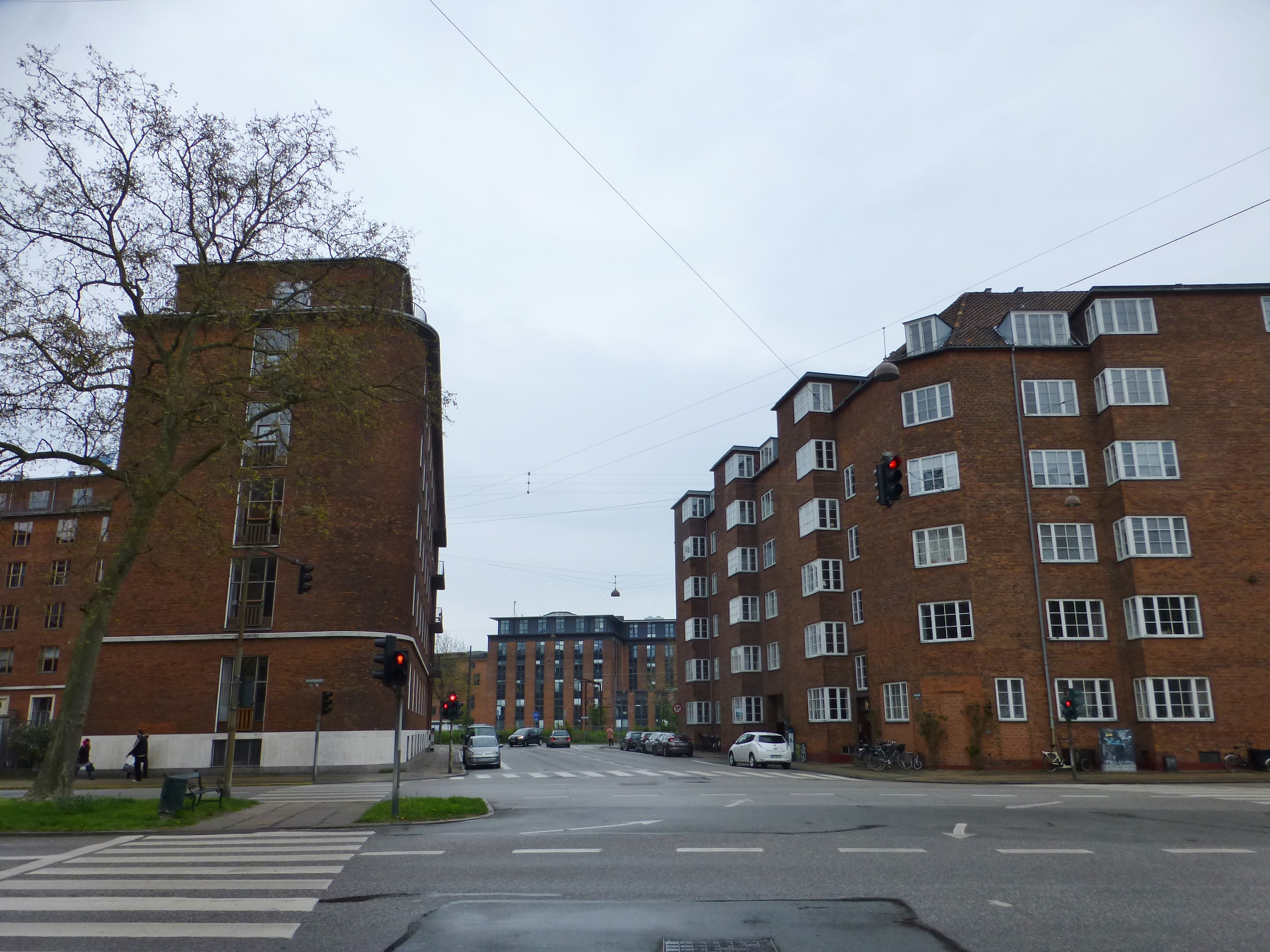 The street Classensgade at Strandboulevarden in Østerbro in Copenhagen.